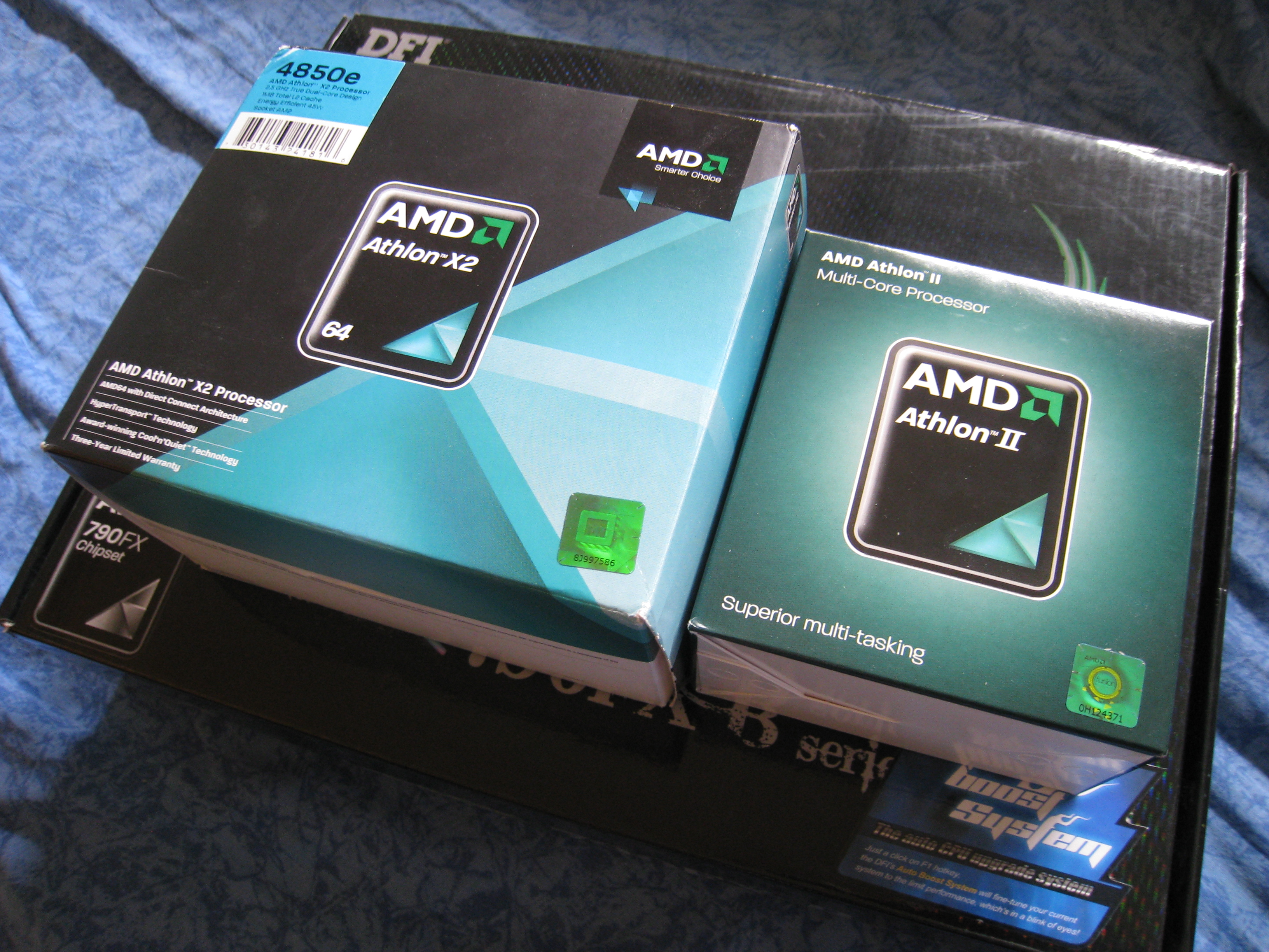 The new athlon II's packaging smaller than previous generation.